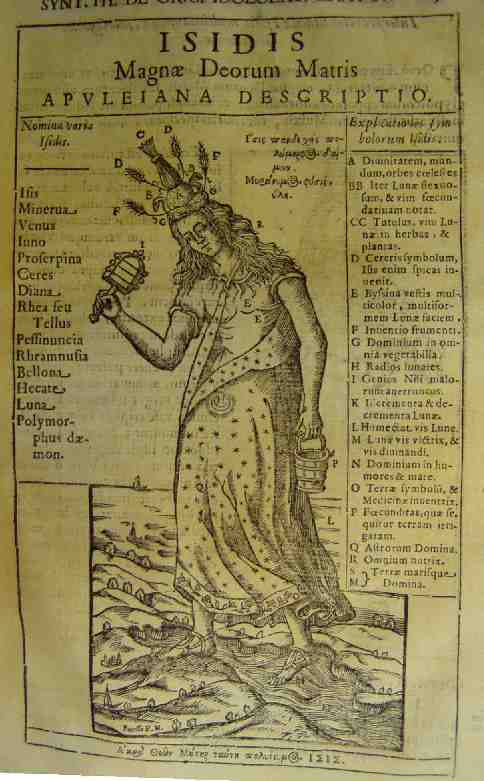 Magnæ Deorum Matris